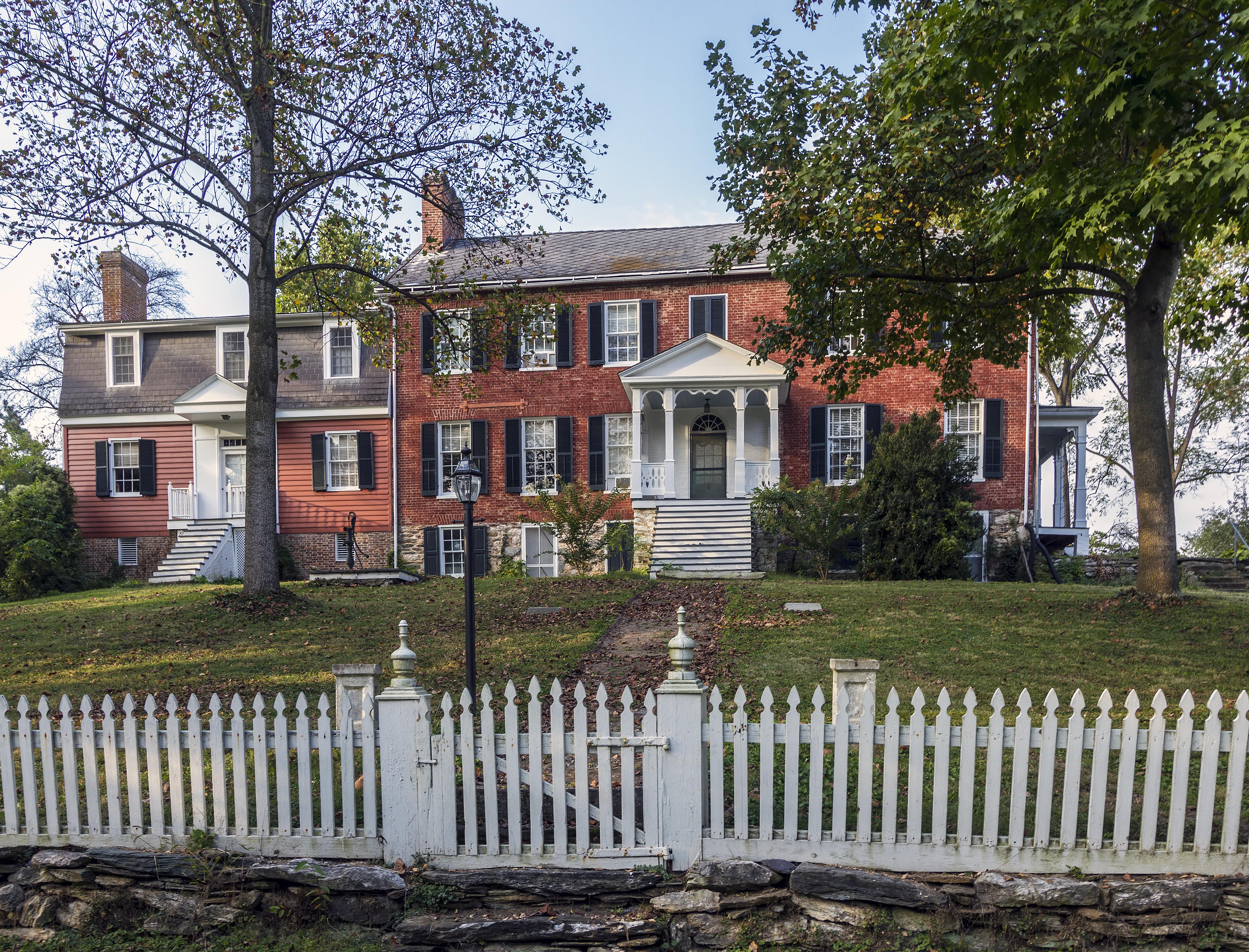 Hopewell, the main house, near Libertytown, Maryland, USA